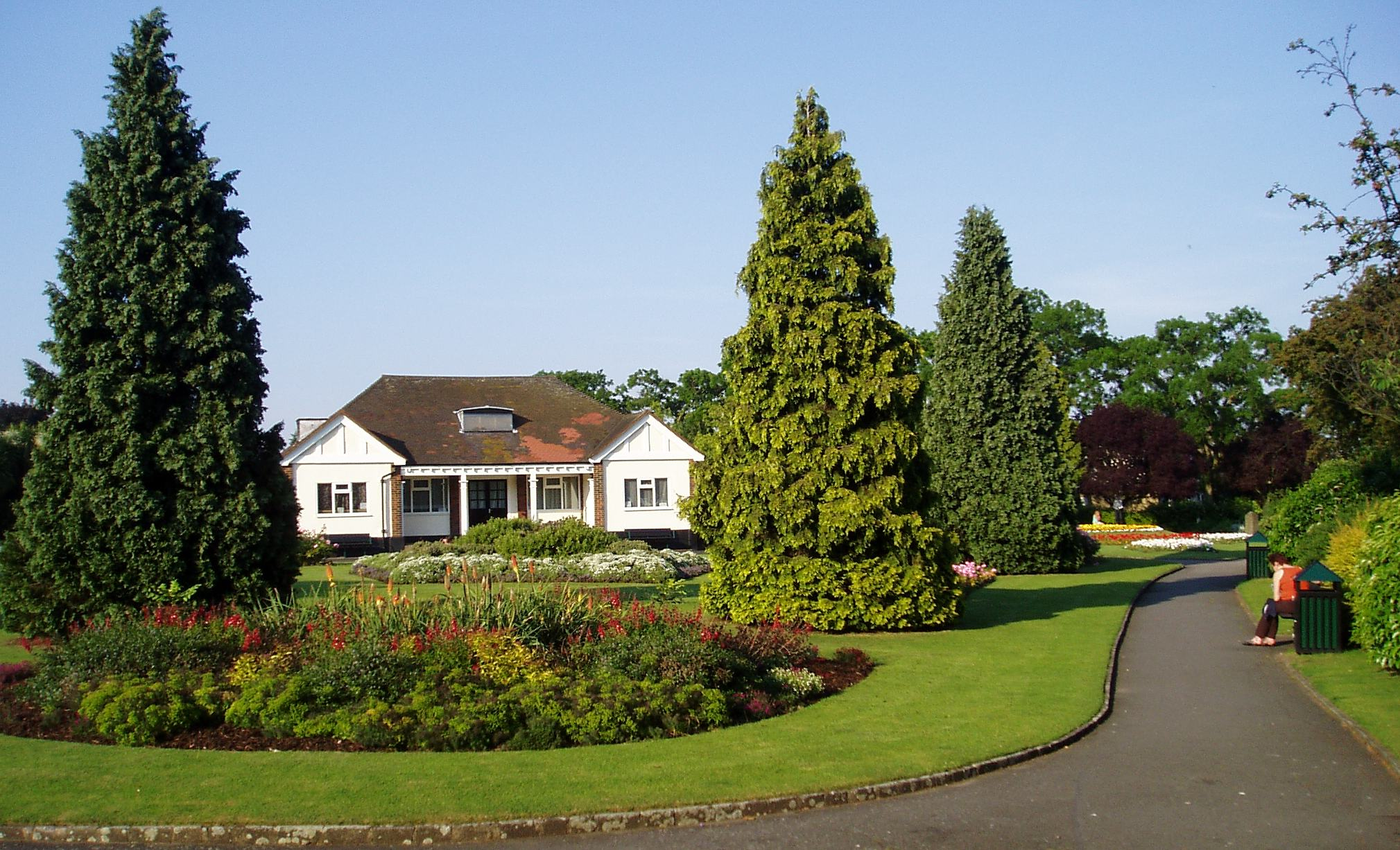 Chapmans Park, Lordship Lane, London N22 from the gallery at Lordship Lane, London N17